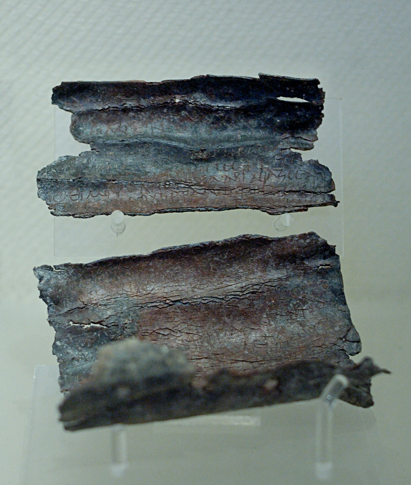 Defixio tabella with a curse against the circus factions, the charioteers and their horses. Lead, 4th century CE. From the via Appia, outside Porta San Sebastiano, Rome.